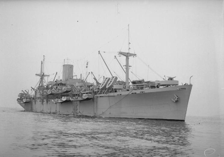 British Landing Ship, Infantry HMS Cicero, pictured under her former name of EMPIRE ARQUEBUS, in coastal waters off Greenock.